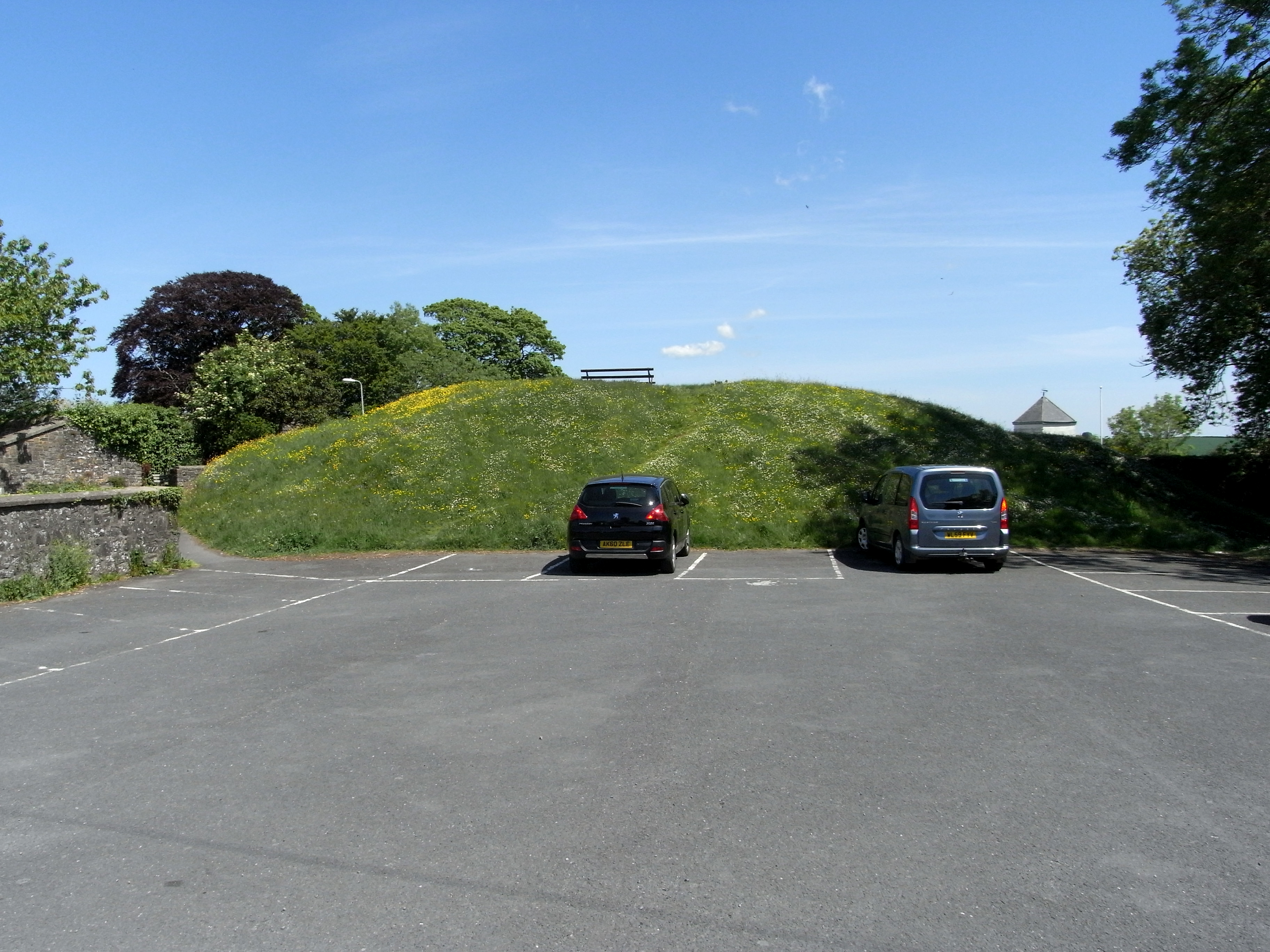 Remnant of 11th century motte of Great Torrington Castle, Devon, England, caput of the feudal barony of Great Torrington.